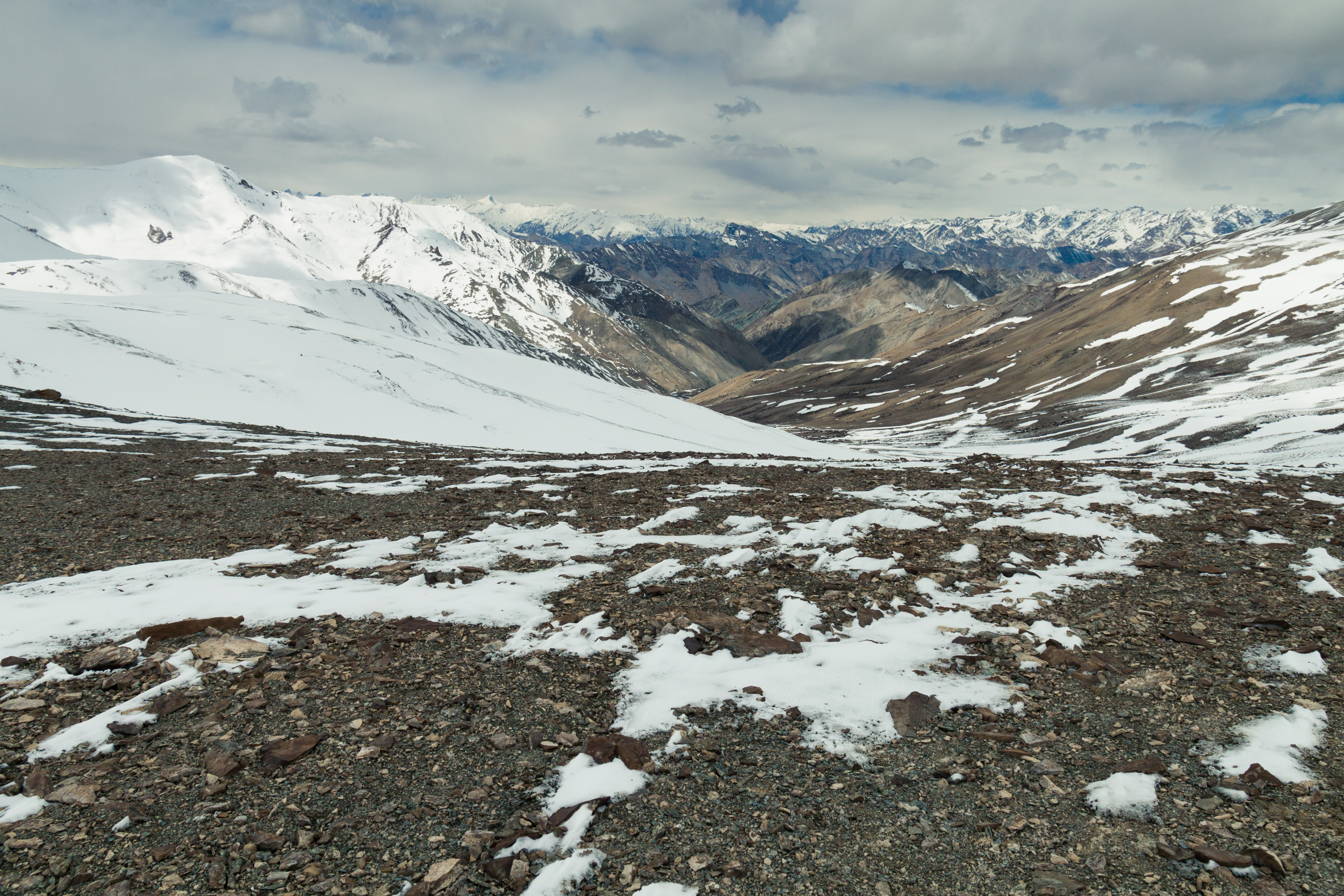 Ganda La pass, 4980m